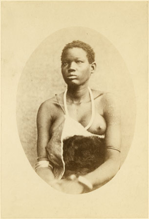 Shilluk girl